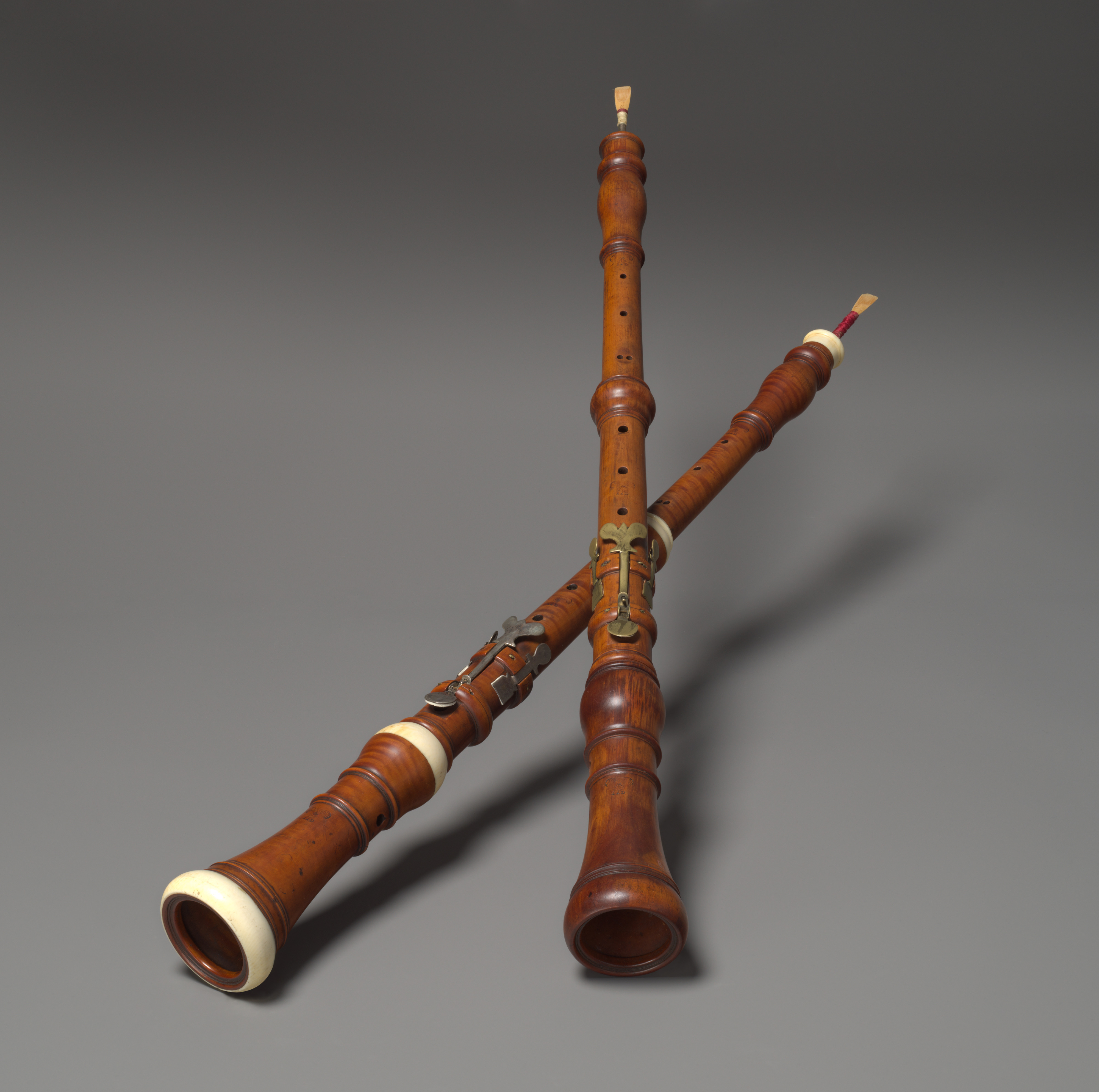 German; Oboe in C; Aerophone-Reed Vibrated-double reed